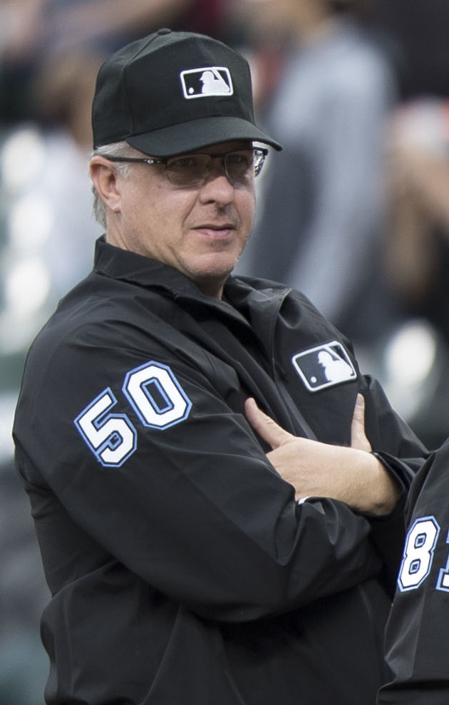 White Sox at Orioles 5/5/17